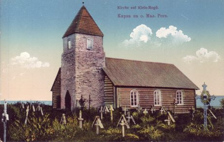 Church on Väike-Pakri island in Estonia.